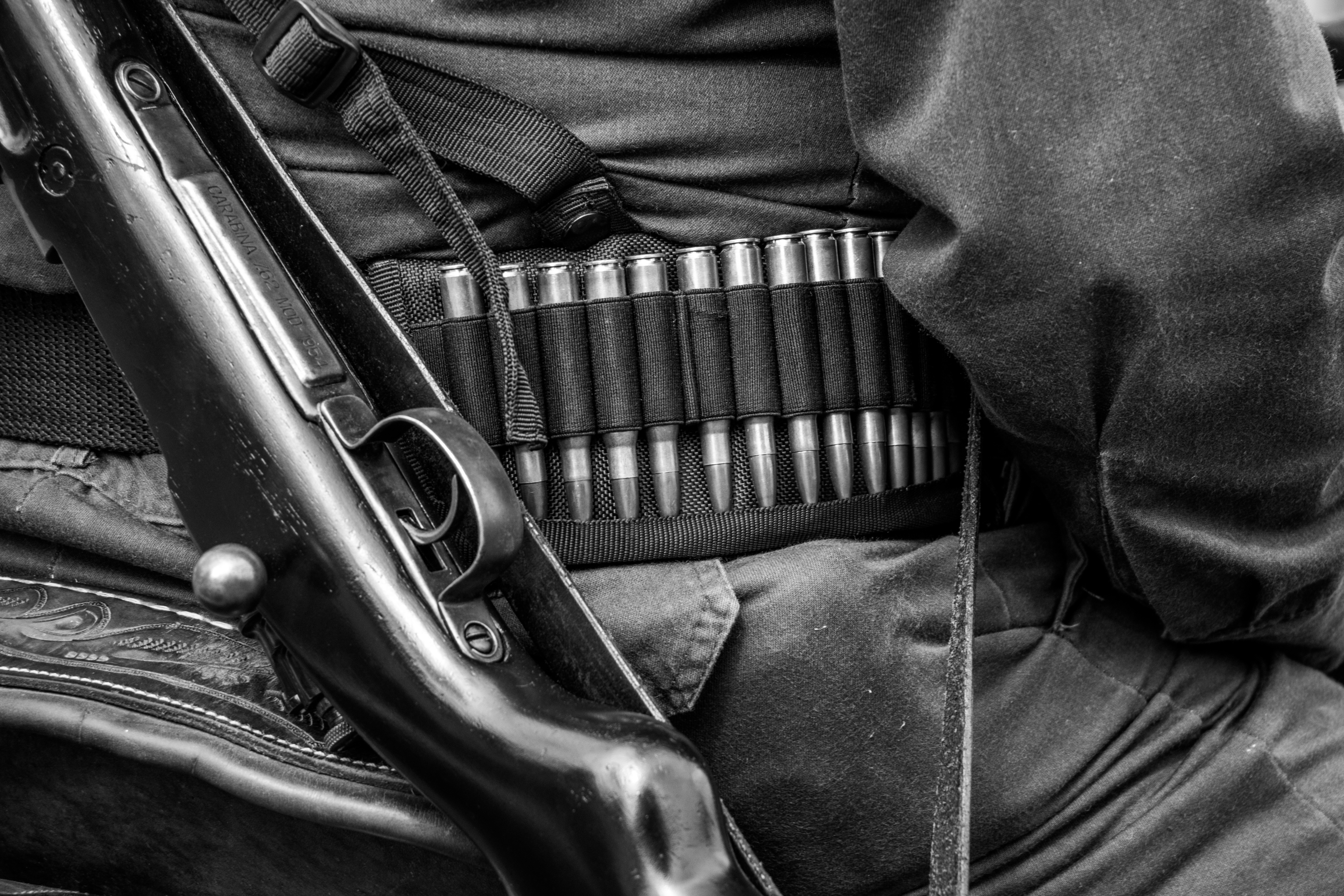 An old M954 Mauser carabine still in service in Mexico´s rural police force.